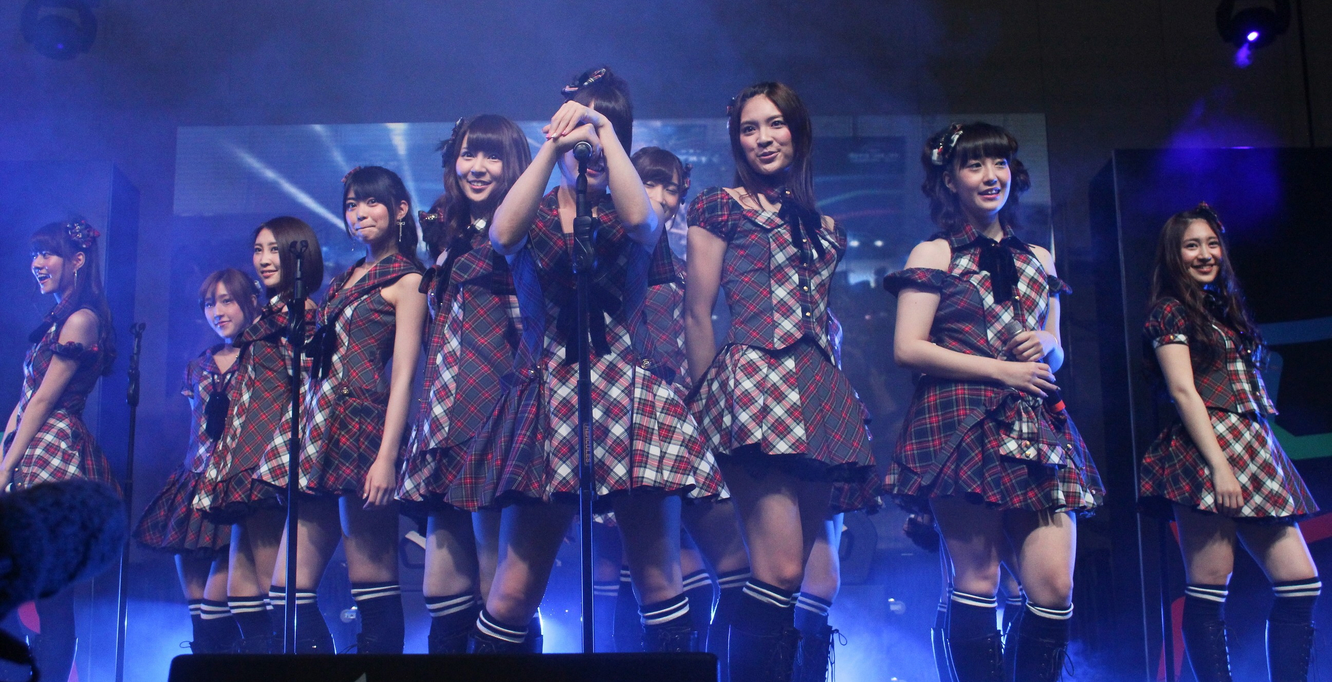 130413 AKB48 at Tokyo Auto Salon Singapore Meet & Greet 2 and Performance